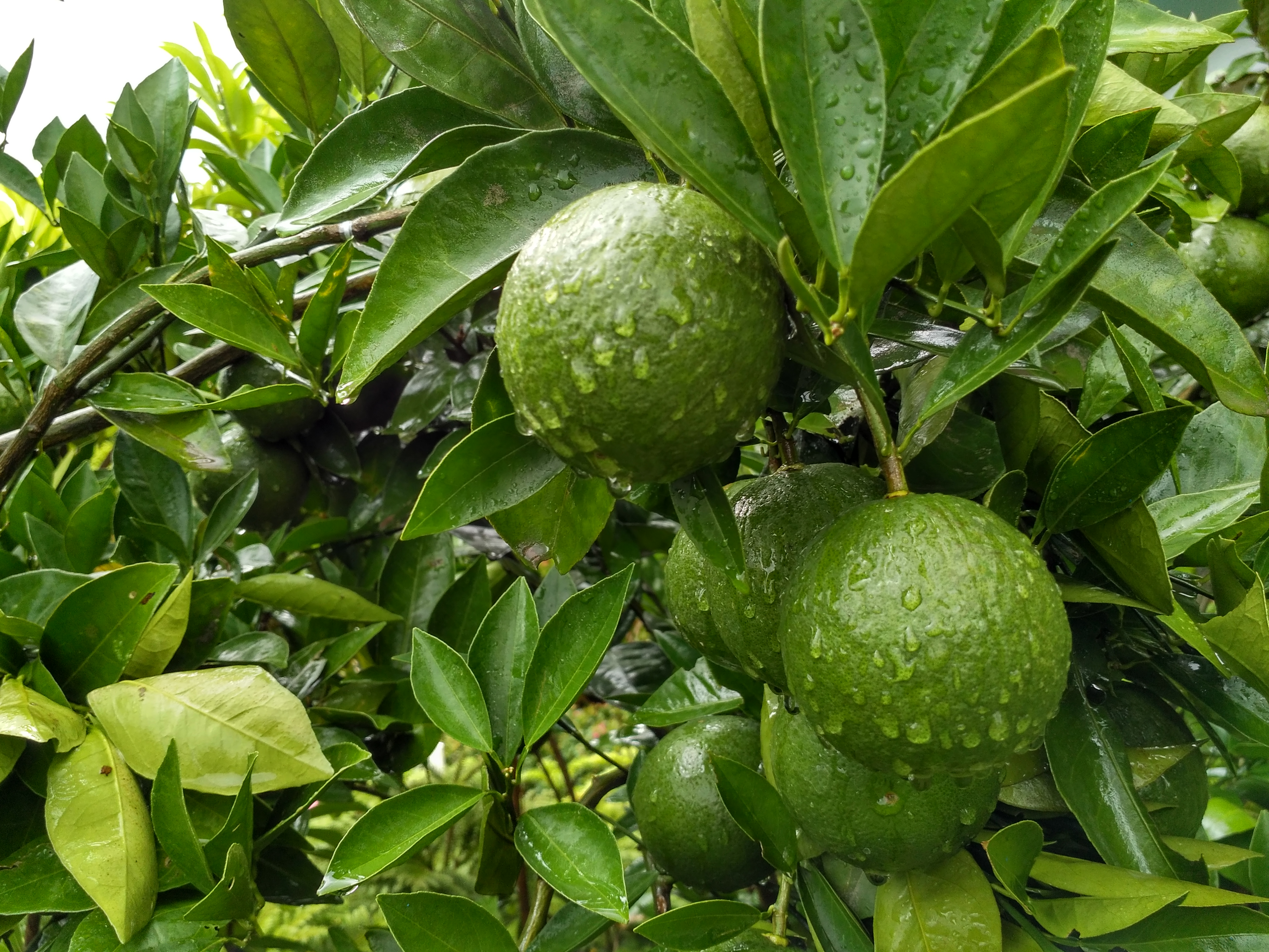 View of some green Mandarin orange with leaves . This photo was captured from National Tree Fair 2018, at Sher-e-Bangla Nagar, Dhaka, Bangladesh. Bangla : কমলা।